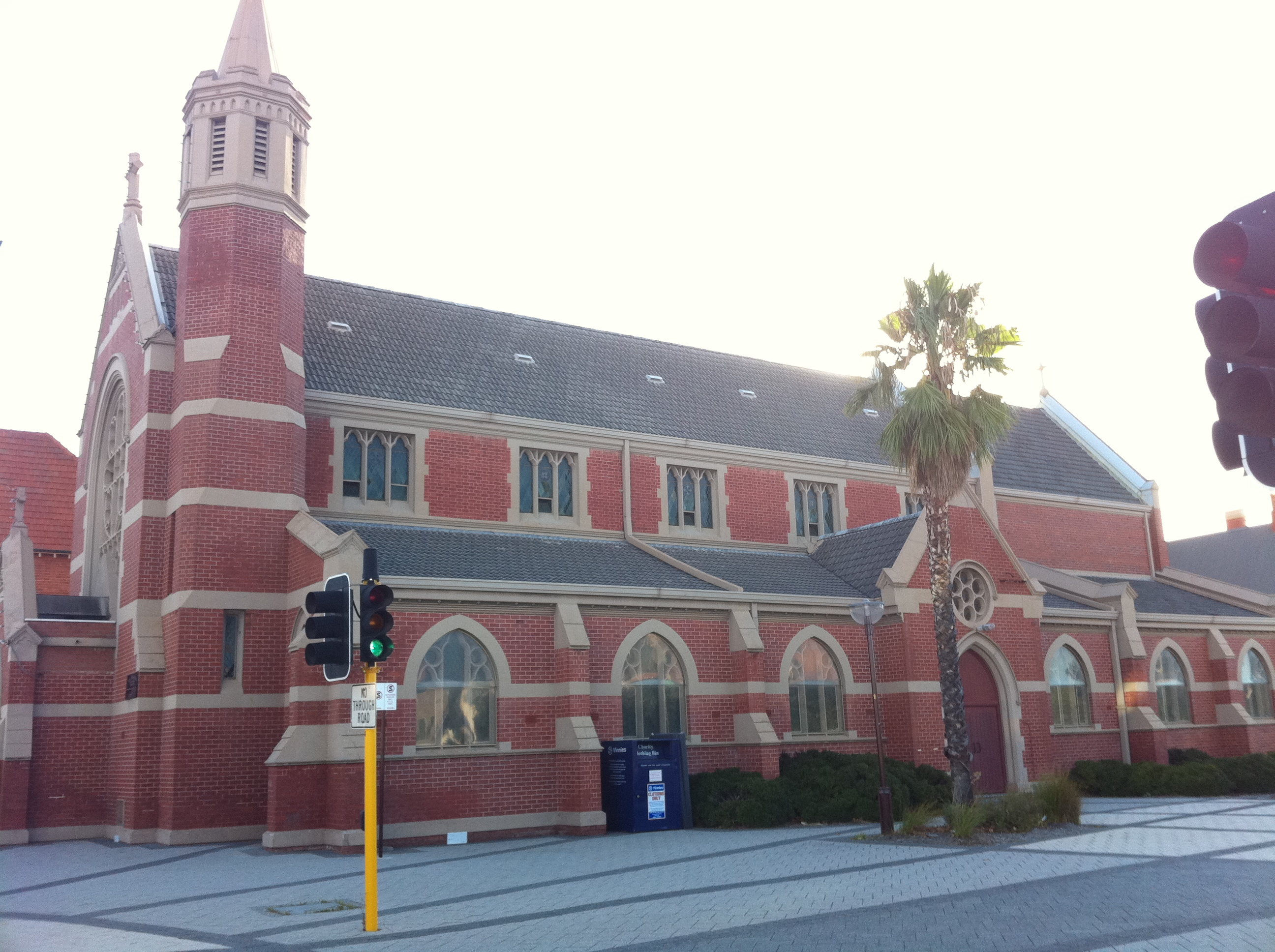 St Brigid's Church, corner of Fitzgerald and Aberdeen Streets, Perth